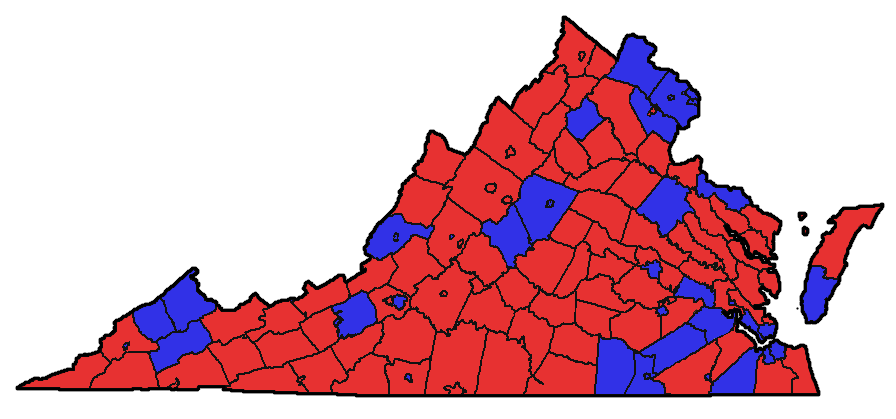 Self-created image of the Virginia 2006 Senate results by county. Webb won the ultra tight race by winning by large margins in cities such as Richmond, Arlington, Alexandria, and Norfolk as well as the Northern Virginia suburbs of Washington. Allen took much of rural Virginia and suburban regions in the Richmond area. Results available here.